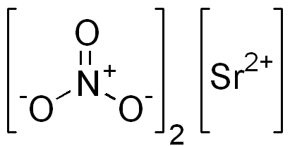 chemical structure of strontium nitrate